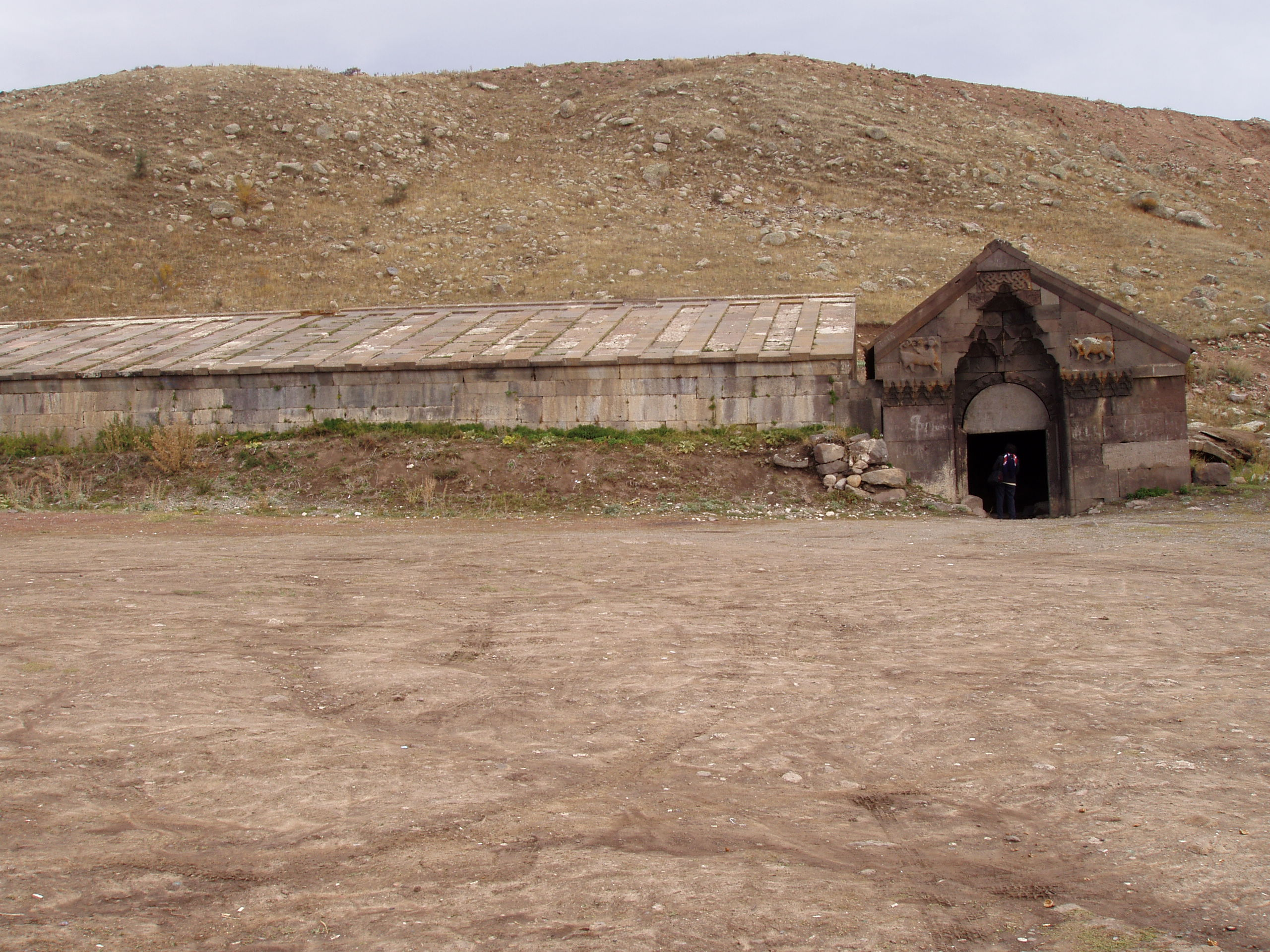 Selim Caravanserai, Vayots Dzor, Armenia. 7/1.2